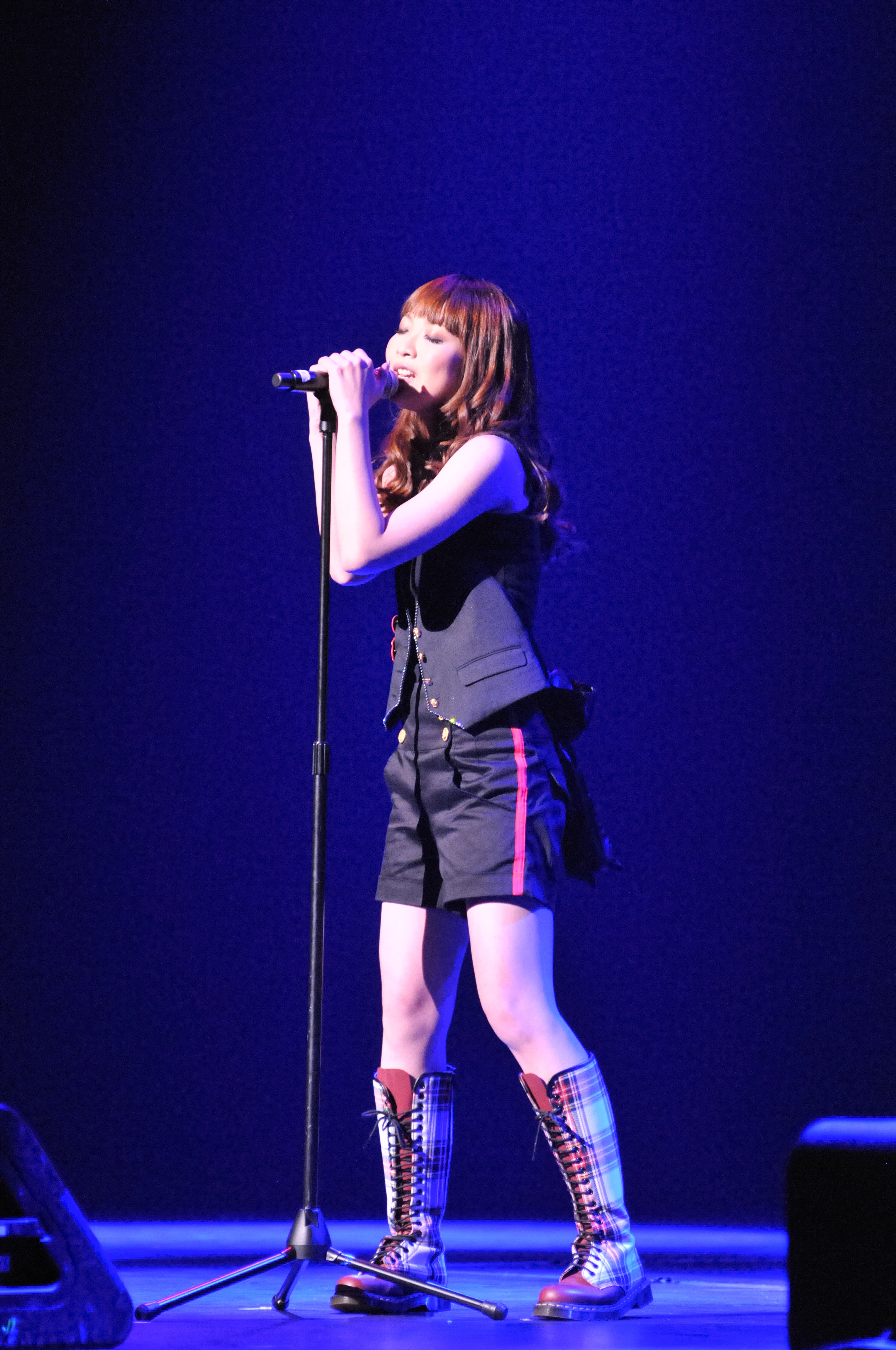 May'n Concert in Anime Expo 2010 at Nokia Theater LA Live